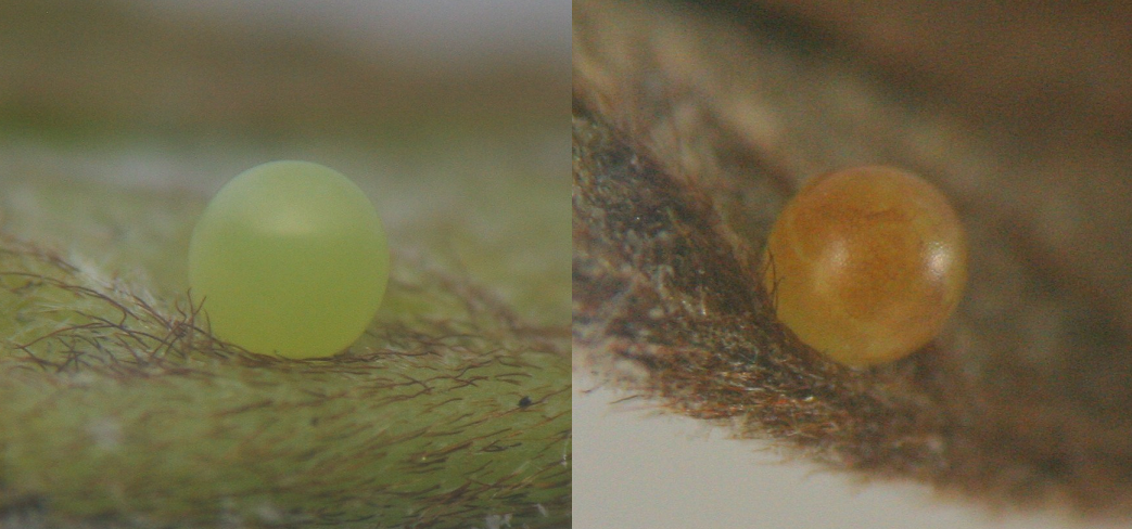 Zebra Swallowtail (Eurytides marcellus) eggs. The left is 1 day old and the right is 3 days old.